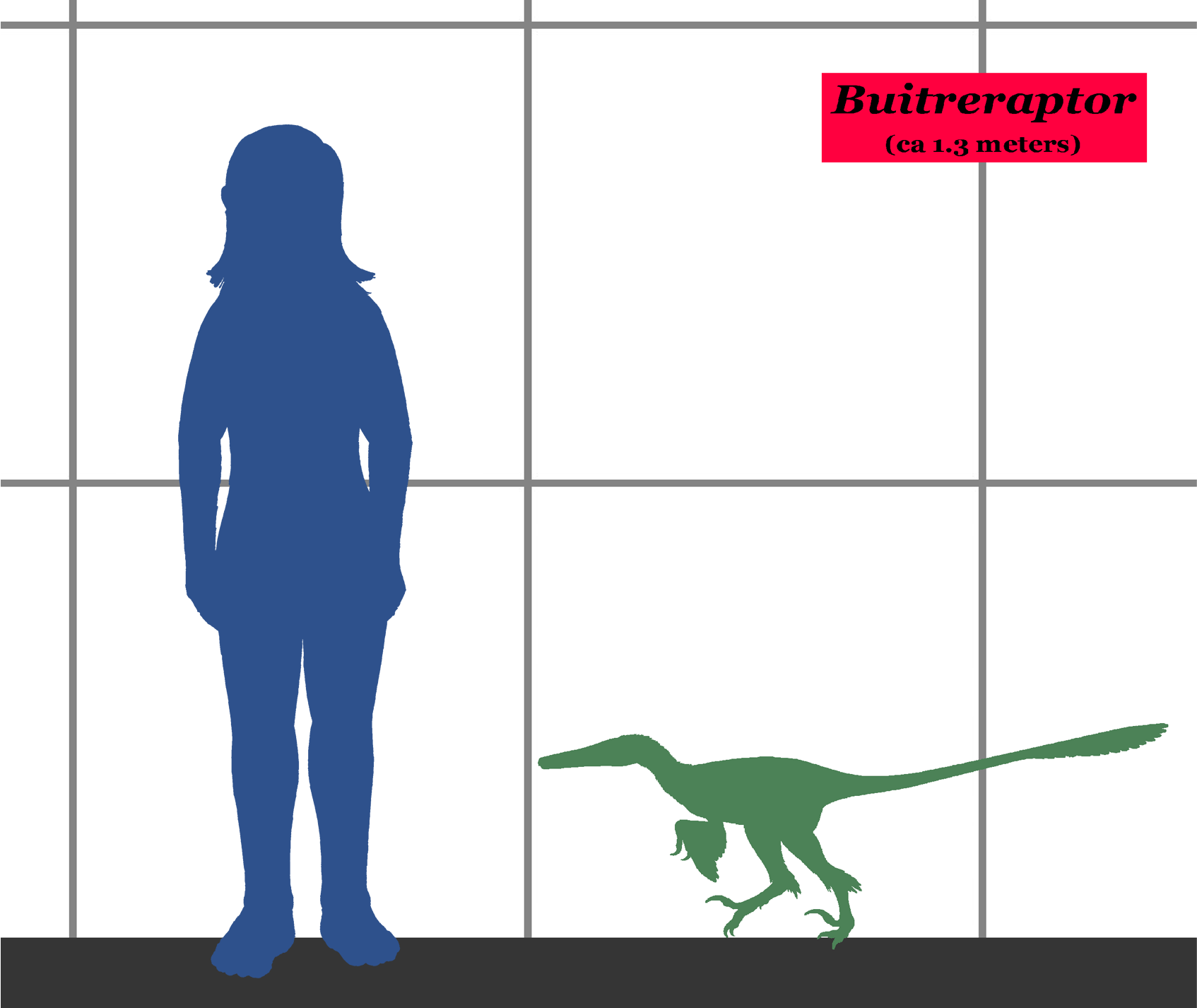 Size of the dromaeosaurid dinosaur buitreraptor gonzalezorum and a human. External links Buitreraptor skeleton.